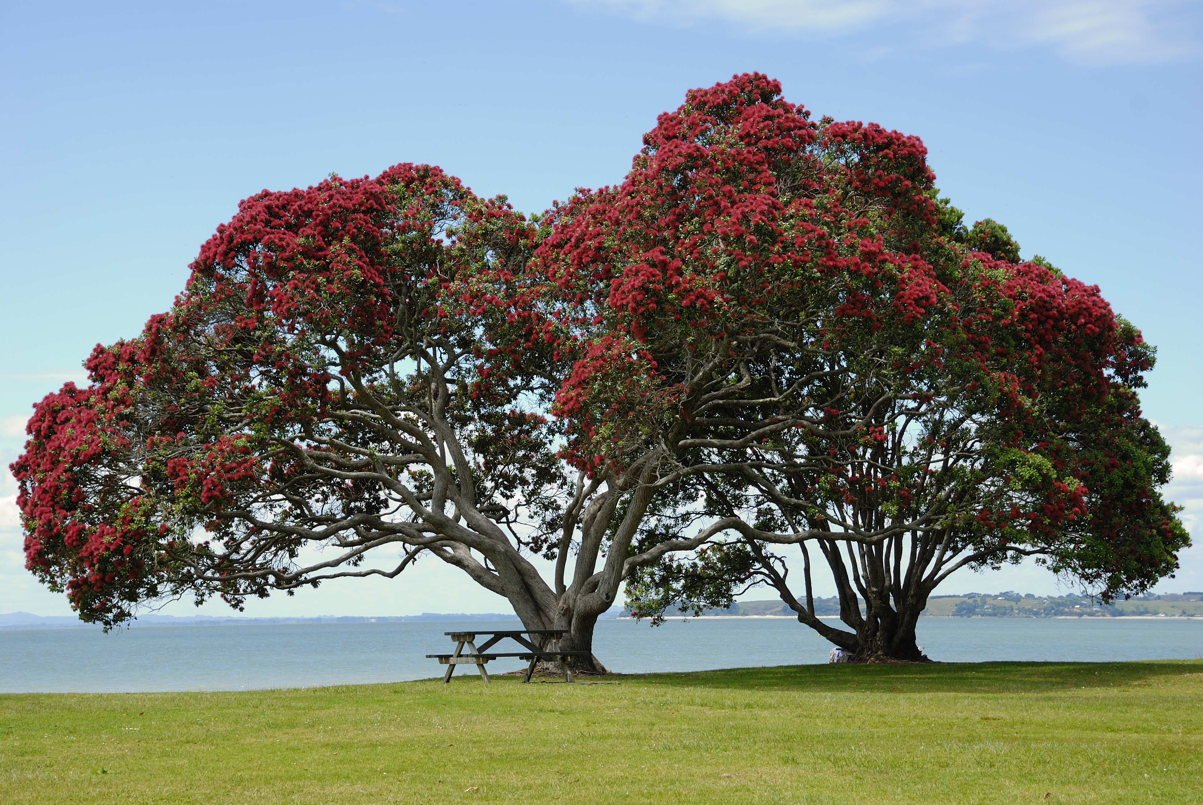 Pōhutukawa tree taken at Cornwallis Beach, West Auckland